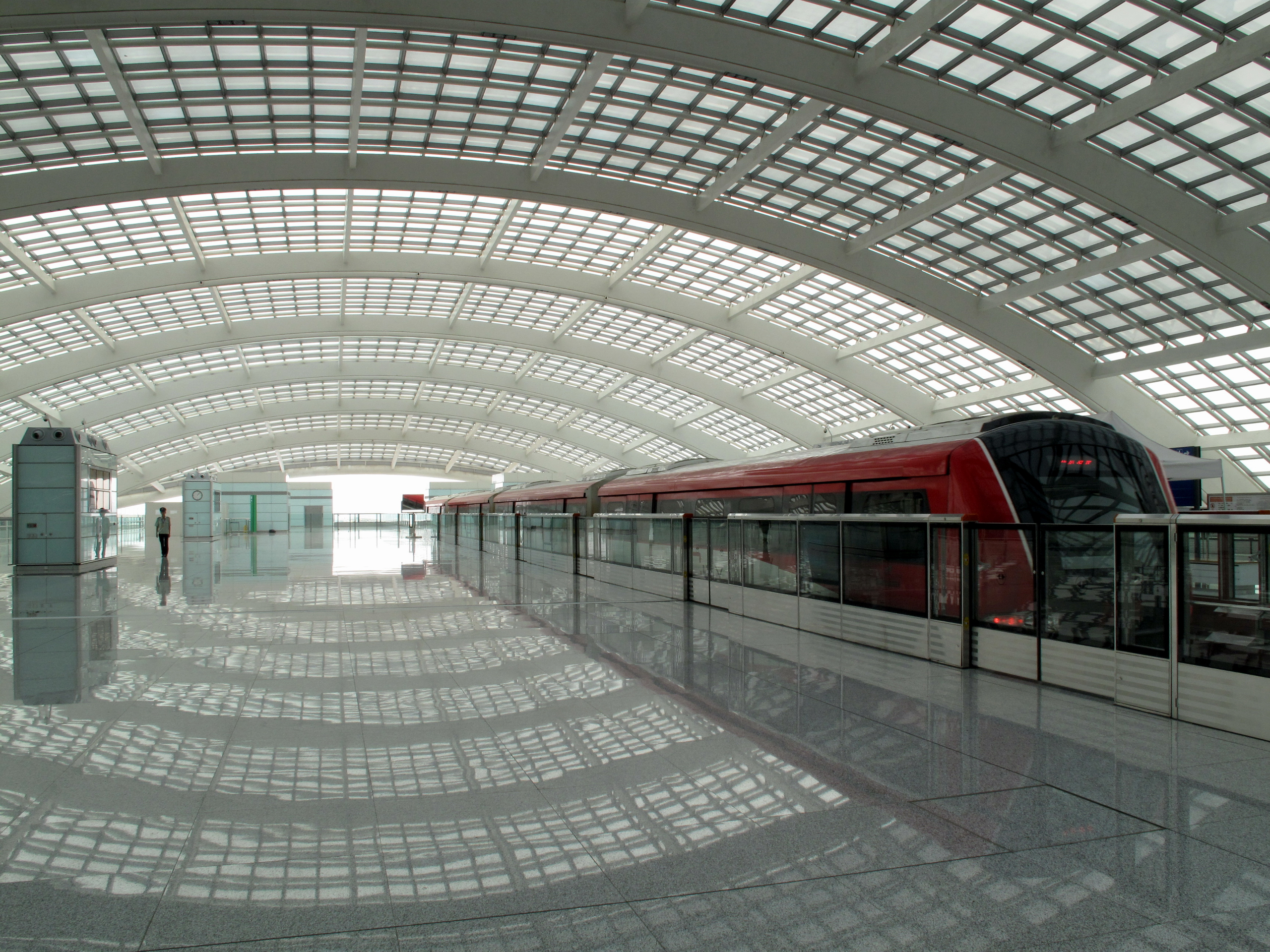 Terminal 3 Station at Beijing Capital International Airport